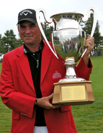 Thomas Bjorn after winning the 2011 Omega European Masters in Crans sur Sierre, Switzerland